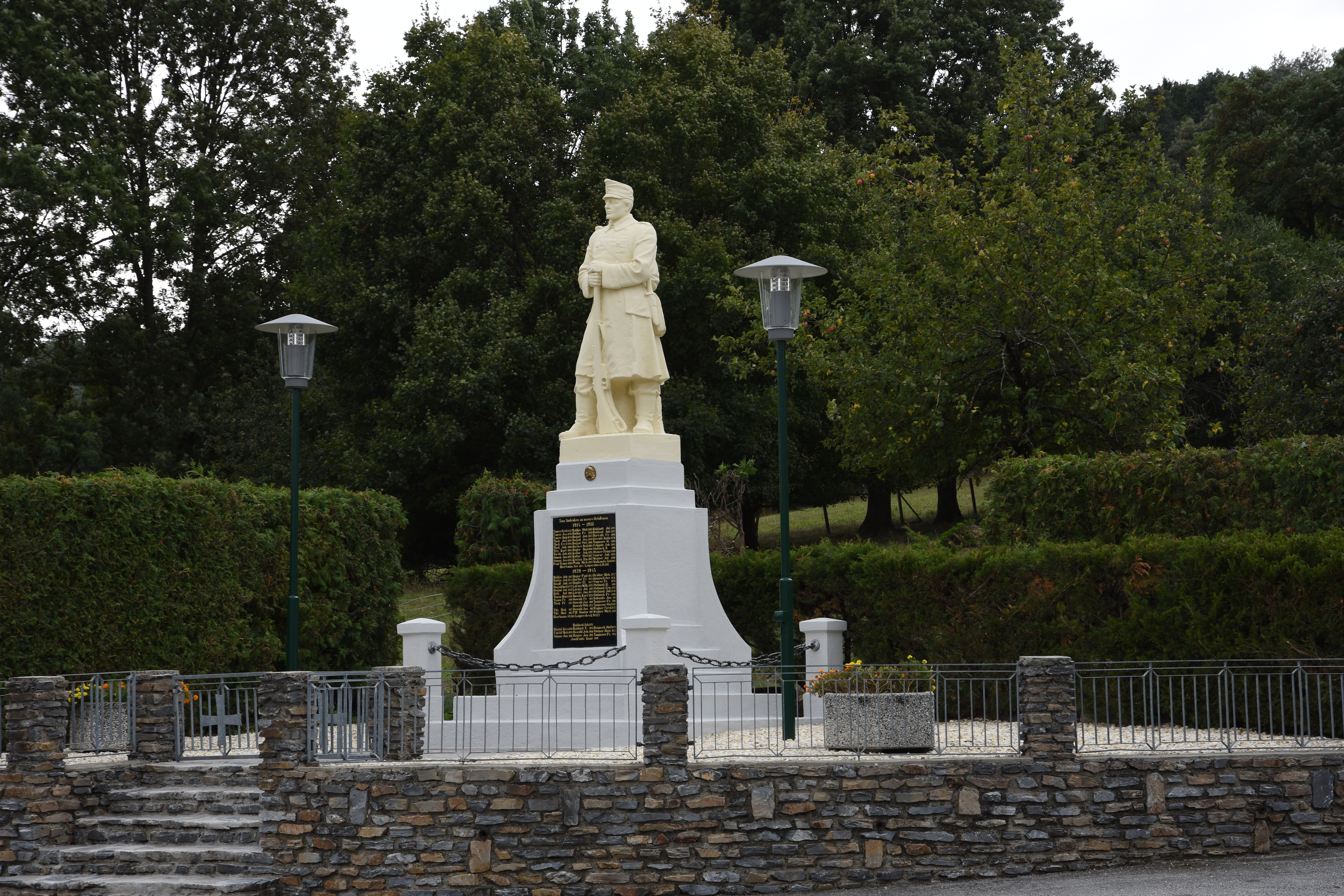 War Memorial Jabing